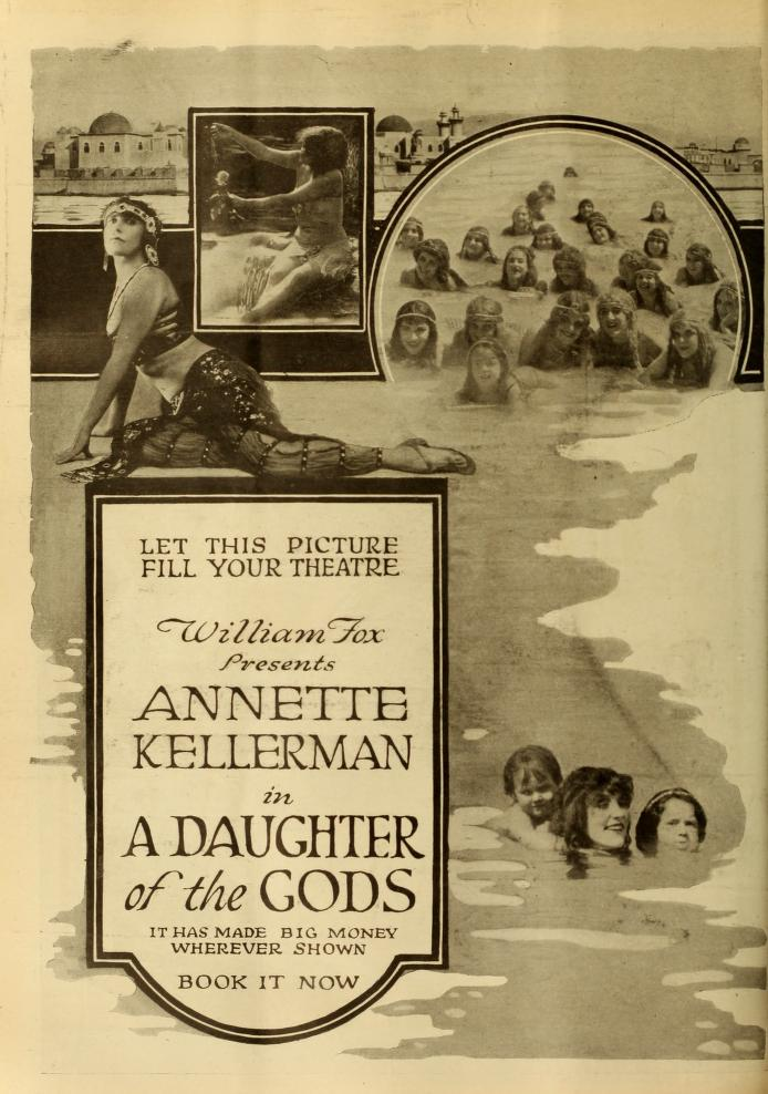 Advertisement in Moving Picture World, July 1918 for the American fantasy film A Daughter of the Gods (1916) with Annette Kellerman.